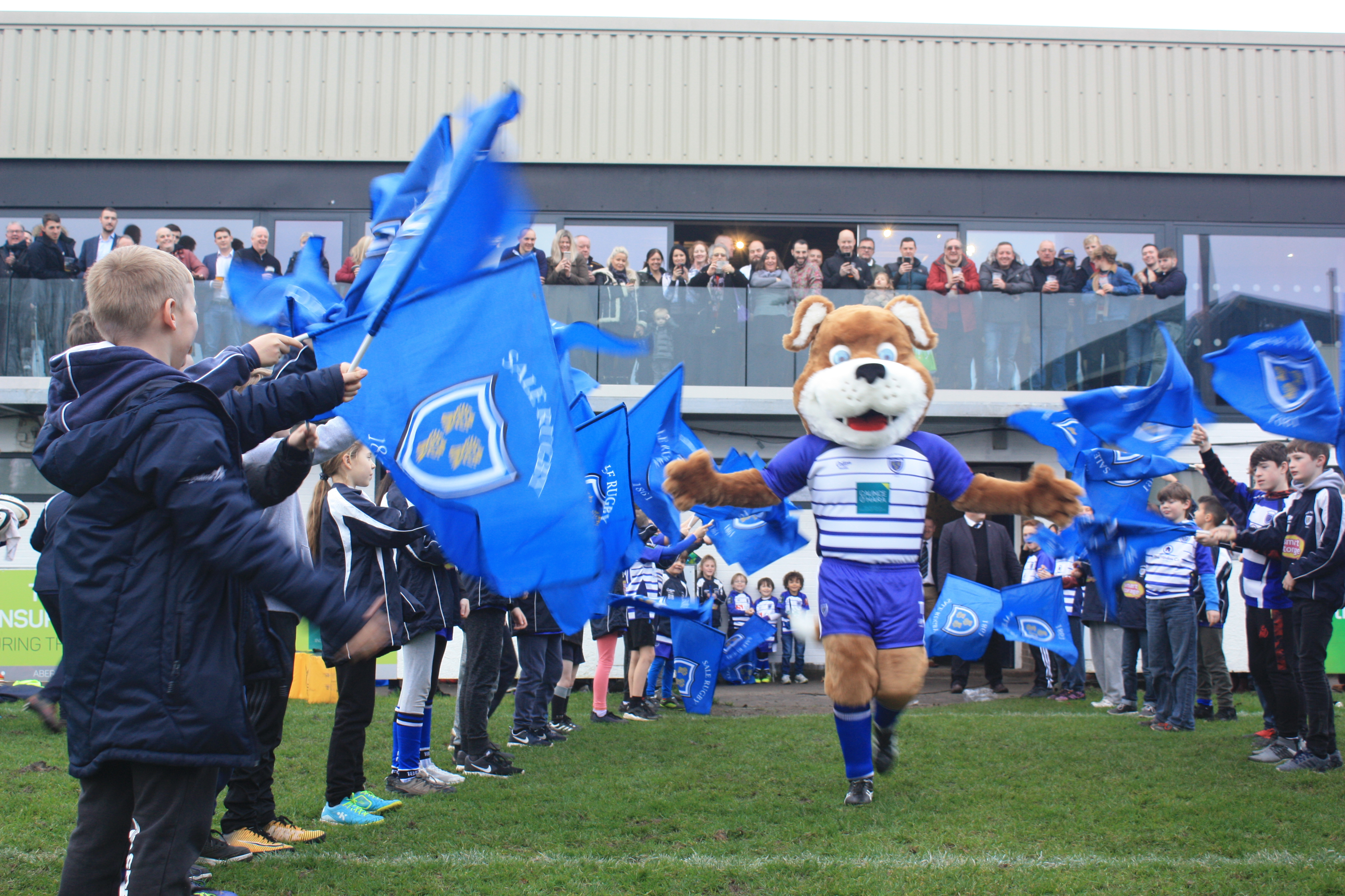 Sale FC rugby mascot Trickey the Mutt, unveiled 23/Dec/2017 at Heywood Road